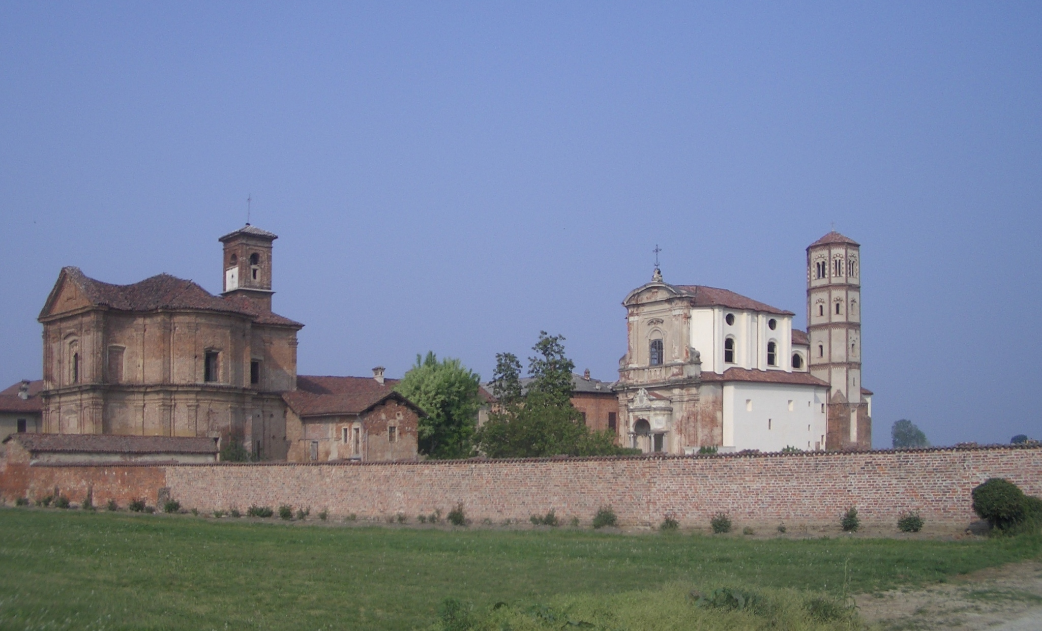 View of the Abbey with its two churches, Lucedio Abbey , Trino, Vercelli, Italy